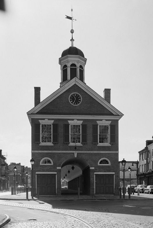 Hope Hose Company No. 6 & Fellowship Engine Company No. 29, Second Street between Pine & Lombard Streets, New Market, Philadelphia.